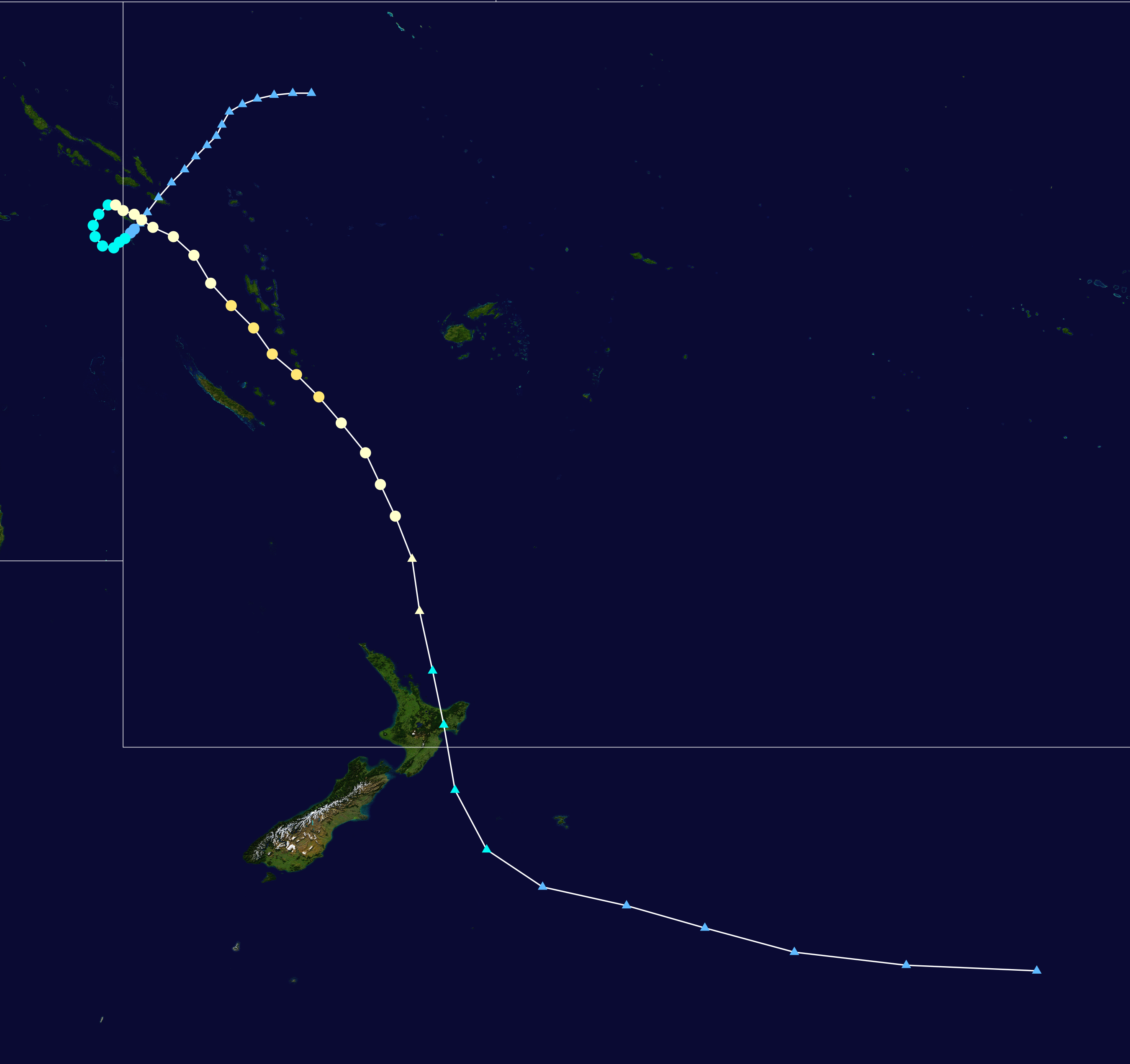 Cyclone Fergus (1996) track. Uses the color scheme from the Saffir-Simpson Hurricane Scale.